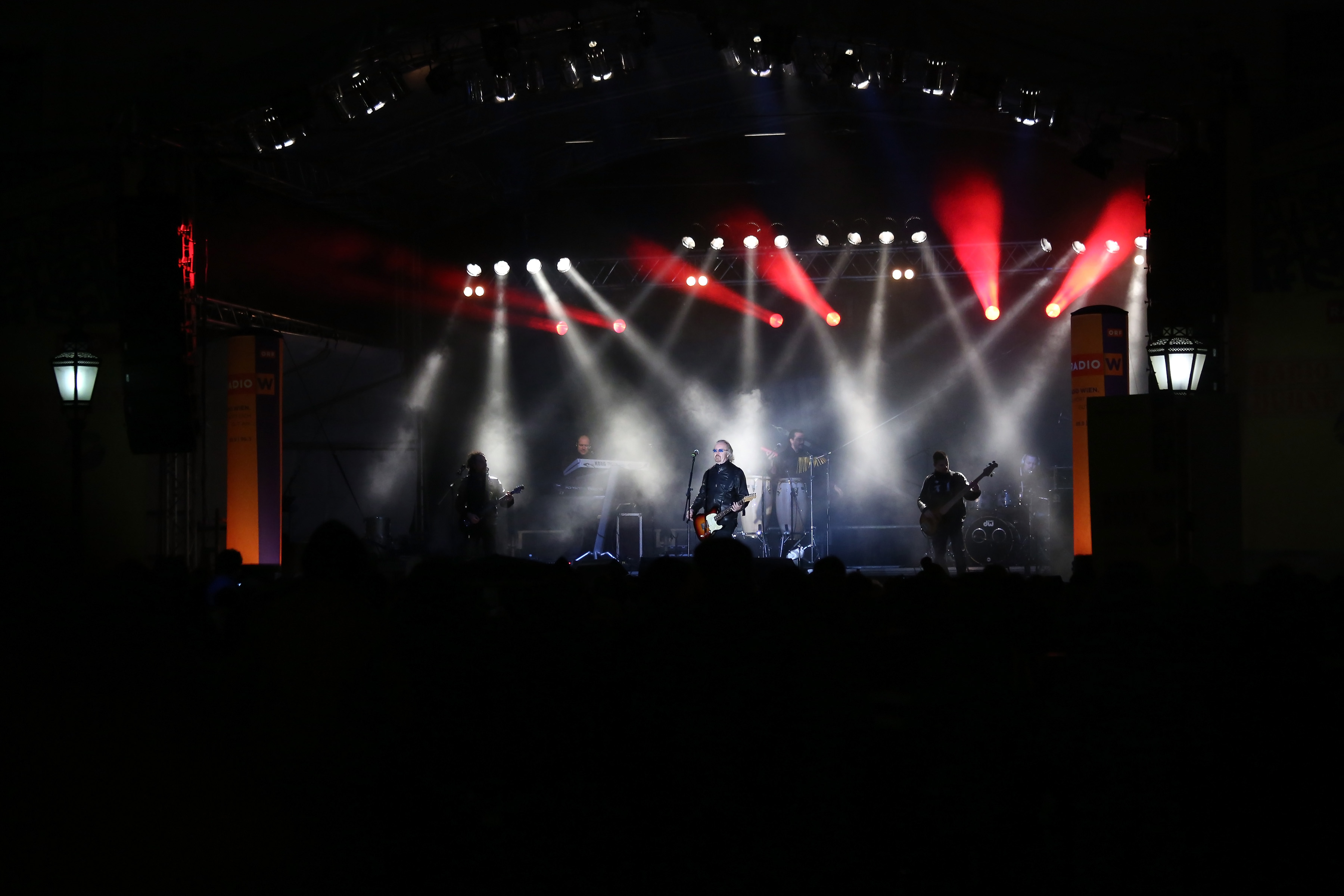 Umberto Tozzi, concert on Michaelerplatz during Wiener Stadtfest (Vienna City Festival) 2014 (Vienna, Austria).